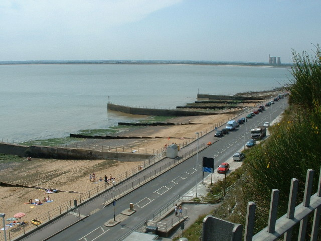 Western Undercliff, Ramsgate. Distant view of Pegwell Bay and the now decommissioned Richborough Power Station.